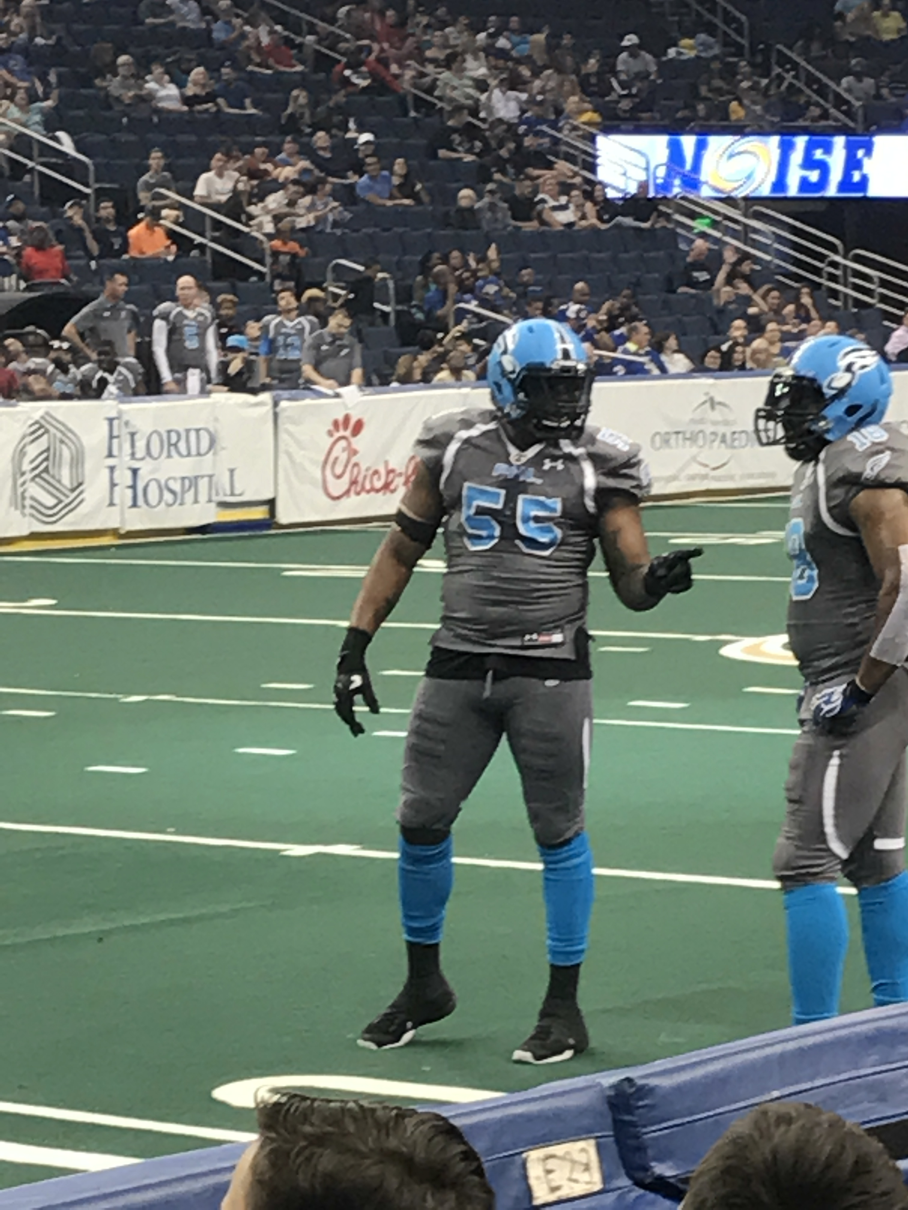 Sean Daniels